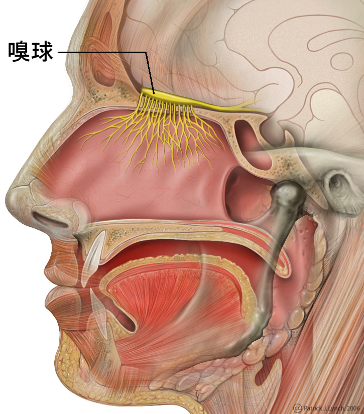 Head anatomy with olfactory nerve. Olfactory bulb labeled in Japanese.